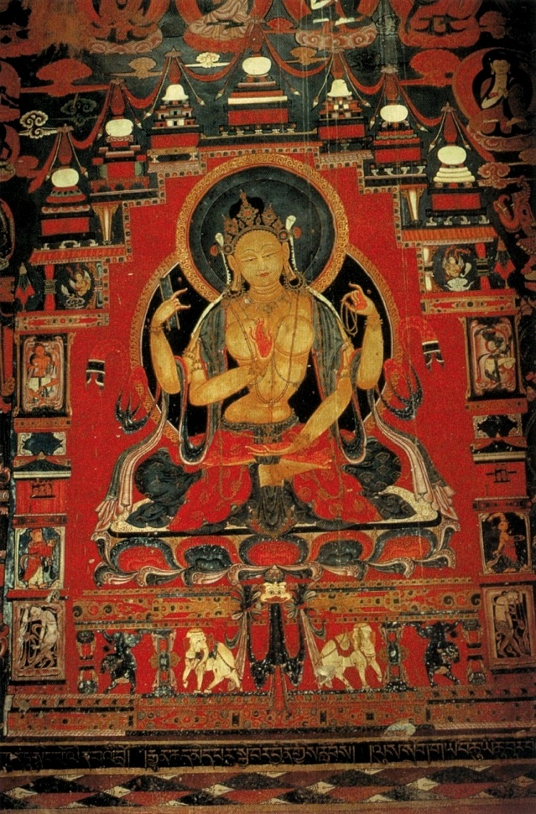 Prajnyaparamita. Wall painting, Tholing monastery, Western Tibet, 2nd half of the 15th century